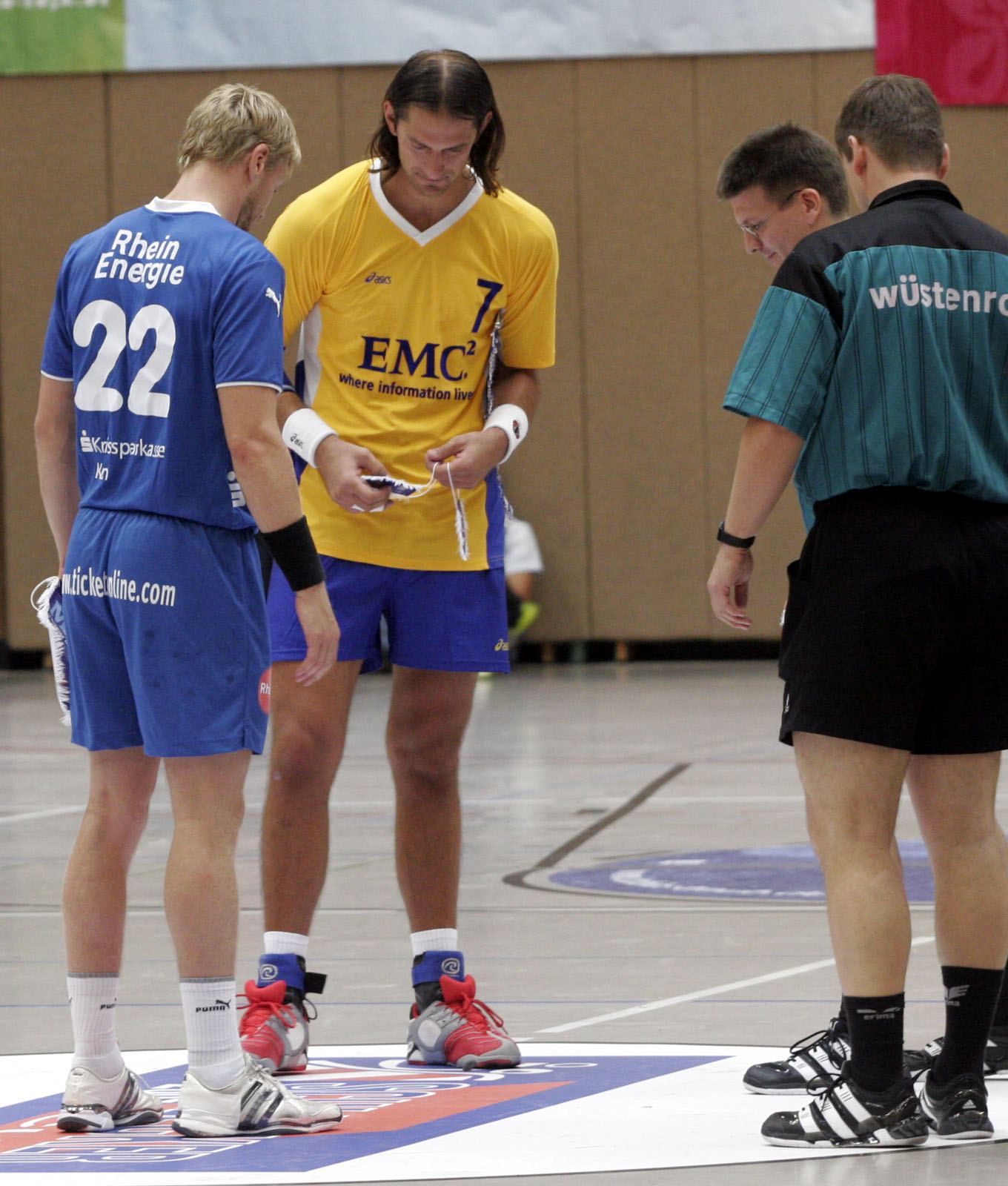 Choice of ends, prior the game VfL Gummersbach - Montpellier HB. Nr. 22 Guðjón Valur Sigurðsson, Nr. 7 Mladen Bojinović, during the Schlecker Cup 2007 in Ehingen (Germany)